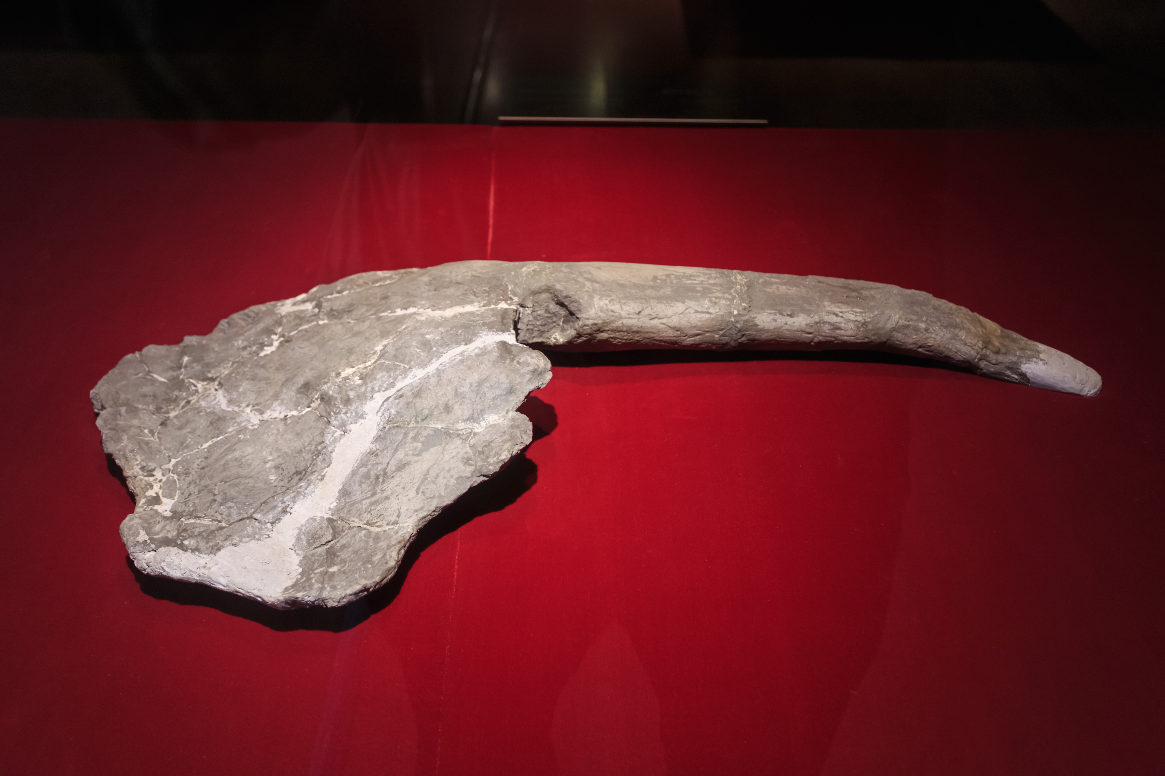 Parascapular spine of Gigantspinosaurus sichuanensis. Symtemtic position: Stegosuridae, Stegosauria, Ornithischia. Locality: Zhongquan, Zigong, Sichuan, China. Age: Late Jurassic (about 150 million years ago). The comma-shaped parascapular spines of stegosaurs were once called "parasacral spines" and regarded as a pair of bones connected with pelvic girdles. The parascapular spines of Gigantspinosaurus sichuanensis, articulated symmethically with its shoulder bones, proved that the were a pair of special bones connecting with the shoulders of stegosaurs dinosaurus for the first time.